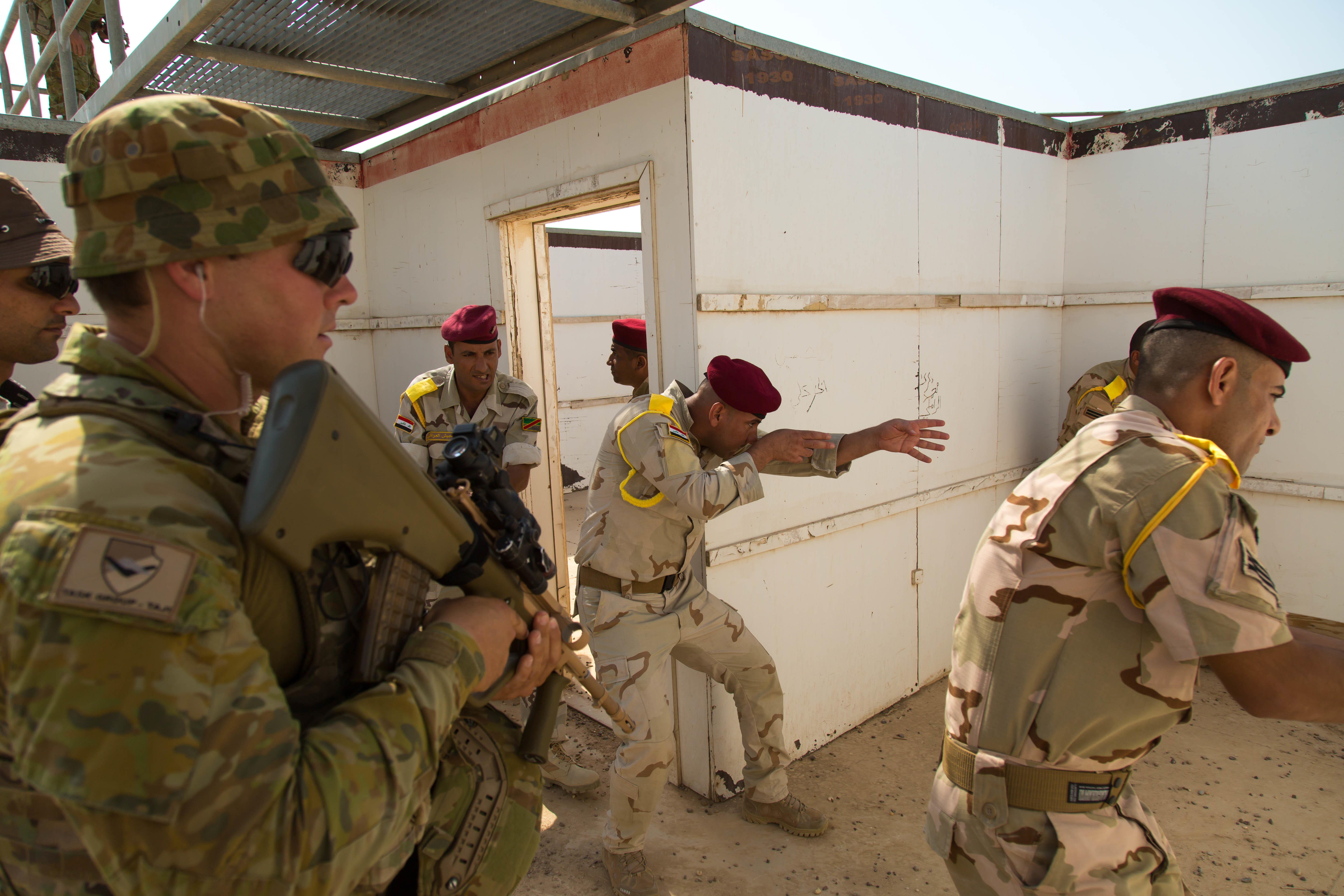 An Australian soldier assigned to Task Group Taji watches as Iraqi soldiers assigned to the 23rd Iraqi Army Brigade clear a room without weapons during the beginning stages of urban operations training at Camp Taji, Iraq, Aug. 1, 2015. Once the soldiers have become proficient at this phase, they will move to more advanced training with their weapons. Training at the building partner capacity sites is an integral part of Combined Joint Task Force – Operation Inherent Resolve’s multinational effort to train Iraqi security force personnel to defeat the Islamic State of Iraq and the Levant. (U.S. Army photo by Sgt. Charles M. Bailey/Released)